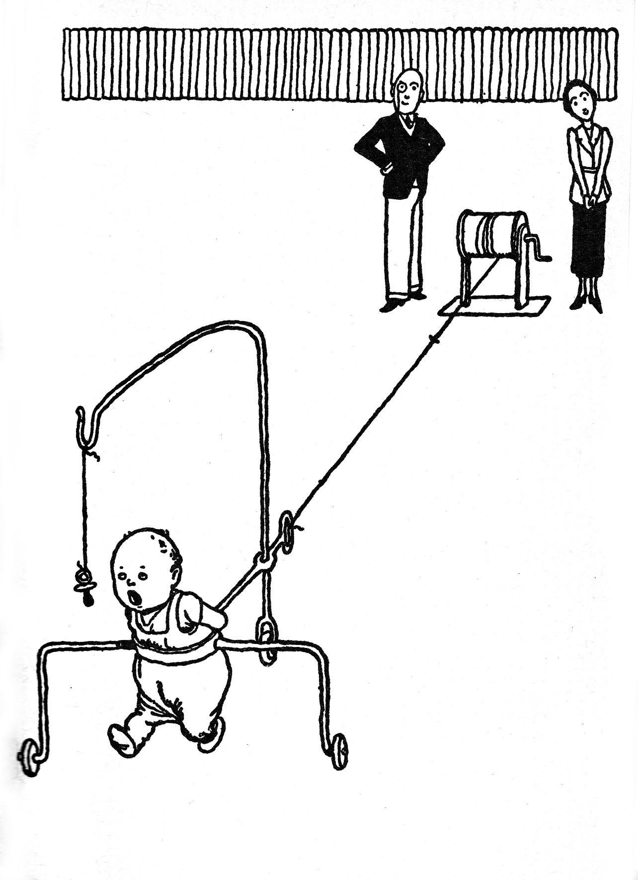 Title: "First lessons in walking"